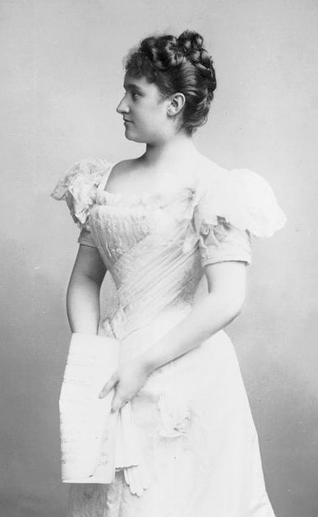 German singer Lula Mysz-Gmeiner (1876—1948)